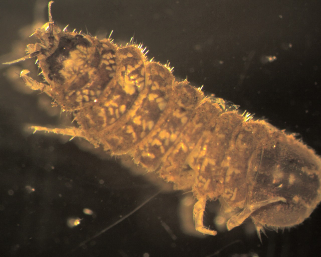 O: Isopoda F: Asellidae